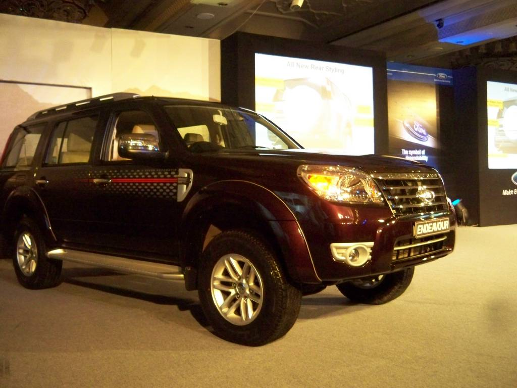 2010 Ford Endeavour